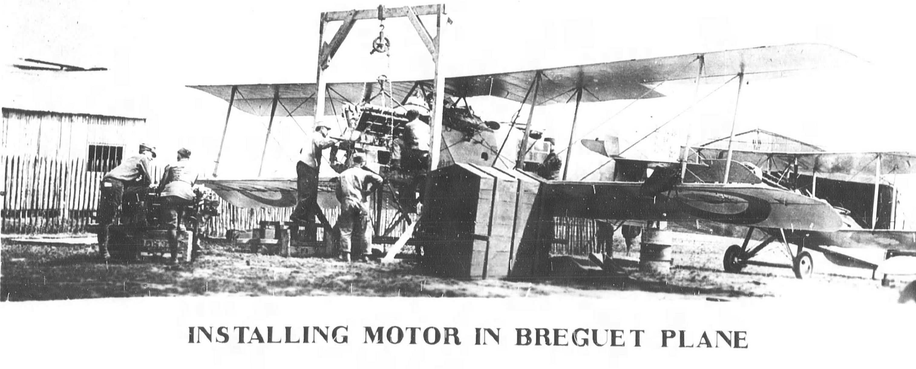 Orly Aerodrome - Installing Engine in Breguet Bomber, 1918